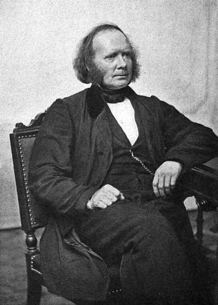 Benjamin F. Thomas, Massachusetts Congressman